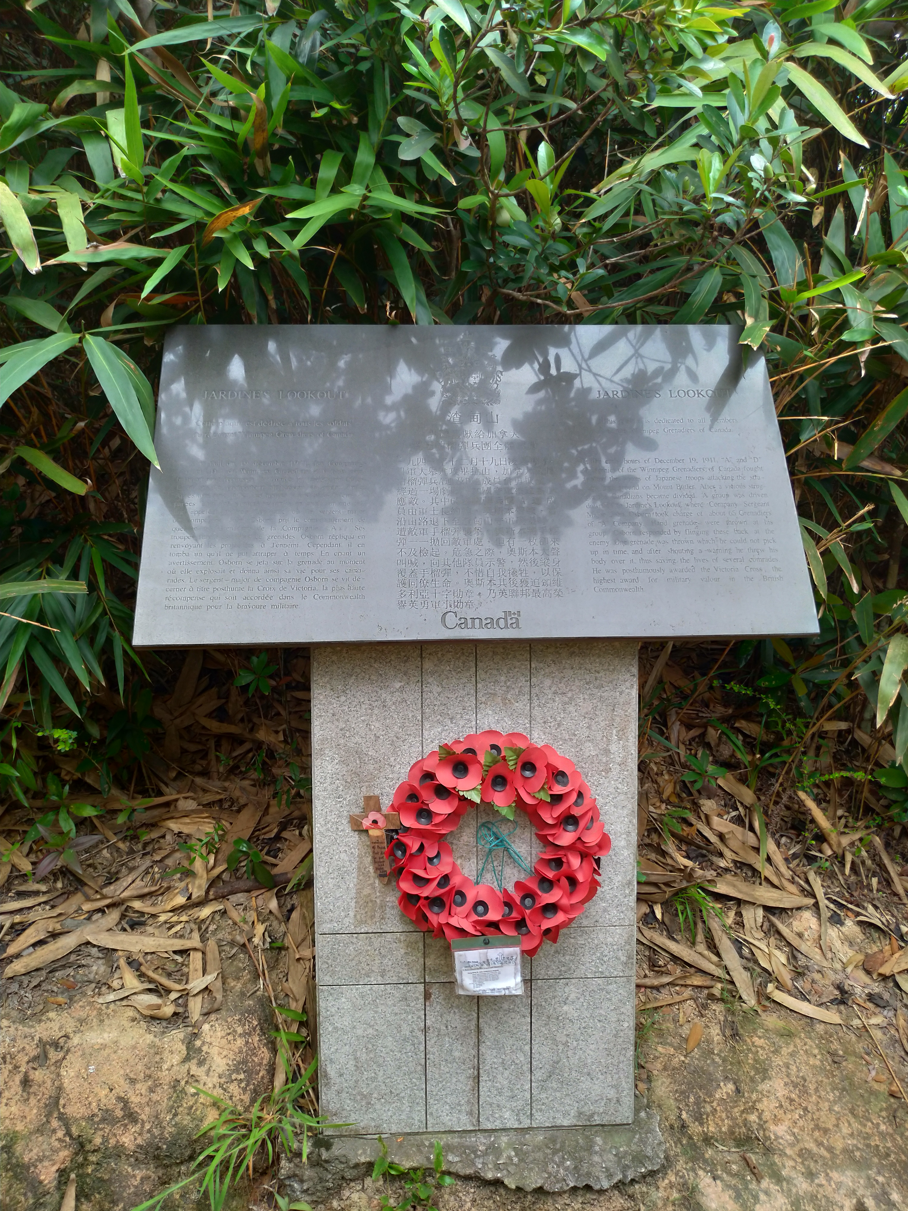 The memorial of Winnipeg Grenadiers at Wong Nai Chung Gap on Hong Kong Island.